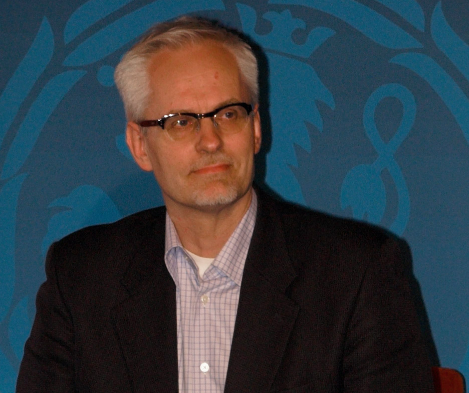 Petri Sarvamaa is a Finnish news journalist and candidate of the National Coalition Party for the European Parliament election 2009.